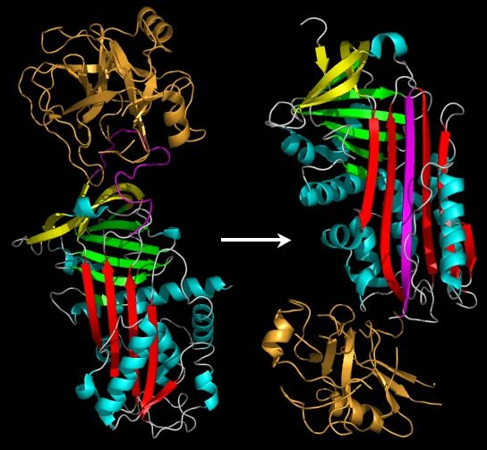 Mechanism of protease inhibition by serpins